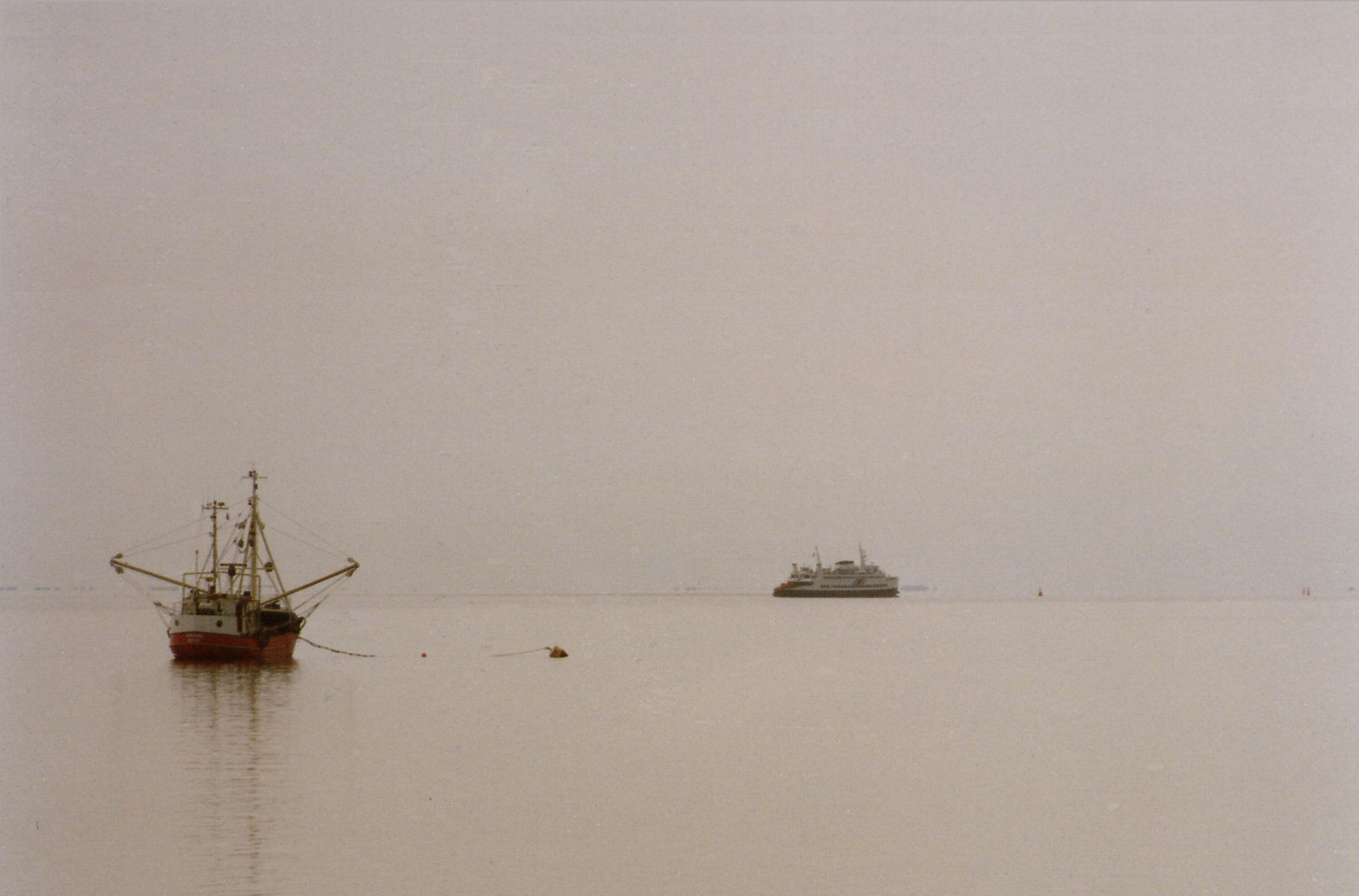 Trawler and ferry Vikingland bound for Römö (Denmark) on the Lister Deep - 2004 - changing horizon